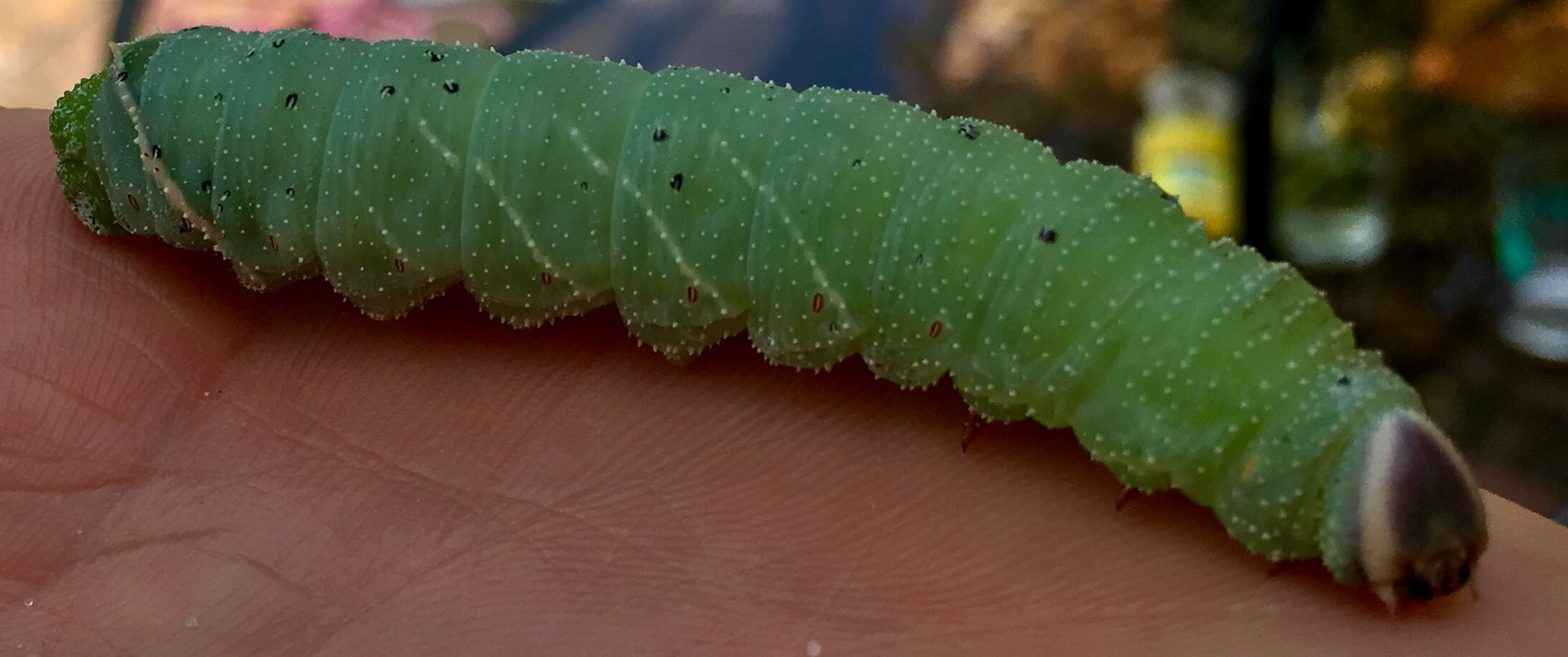 Pachysphinx modesta at Fermilab